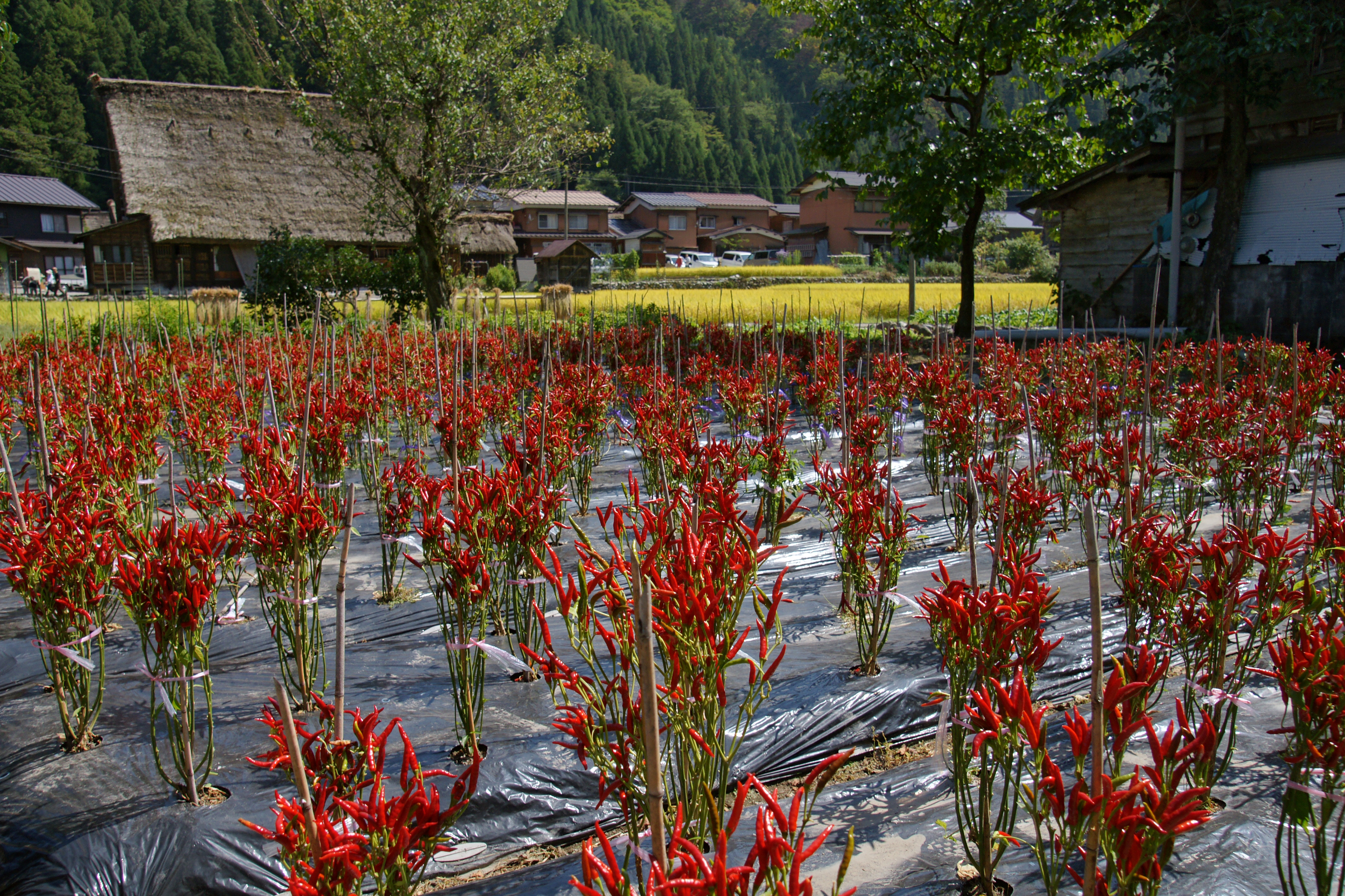 Shirakawa-go (Ogi) in Shirakawa, Gifu prefecture, Japan